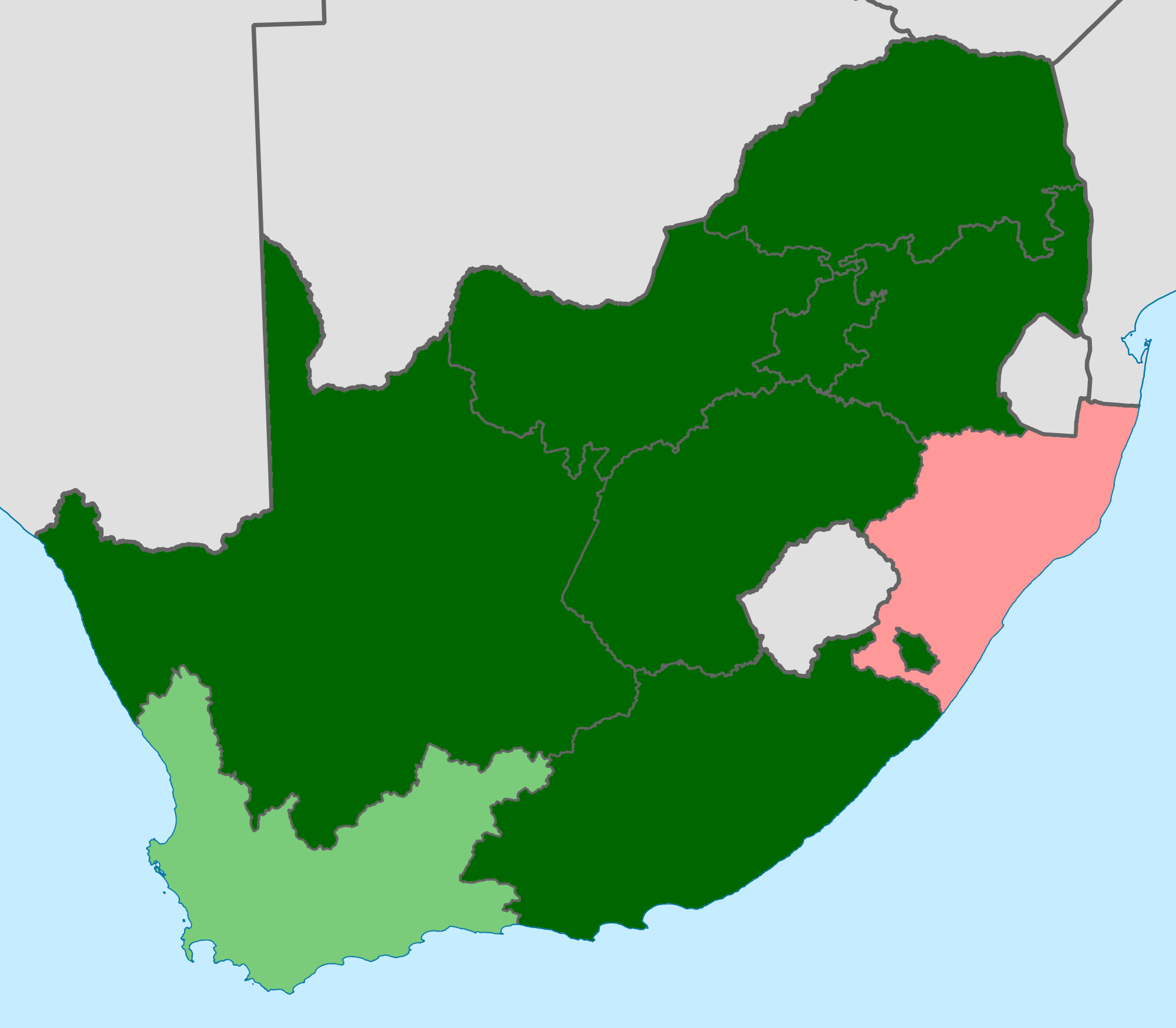 Map showing, for each province in South Africa, the party taking the largest number of votes in the 1999 South African general election. A lighter shade indicates a non-majority plurality.